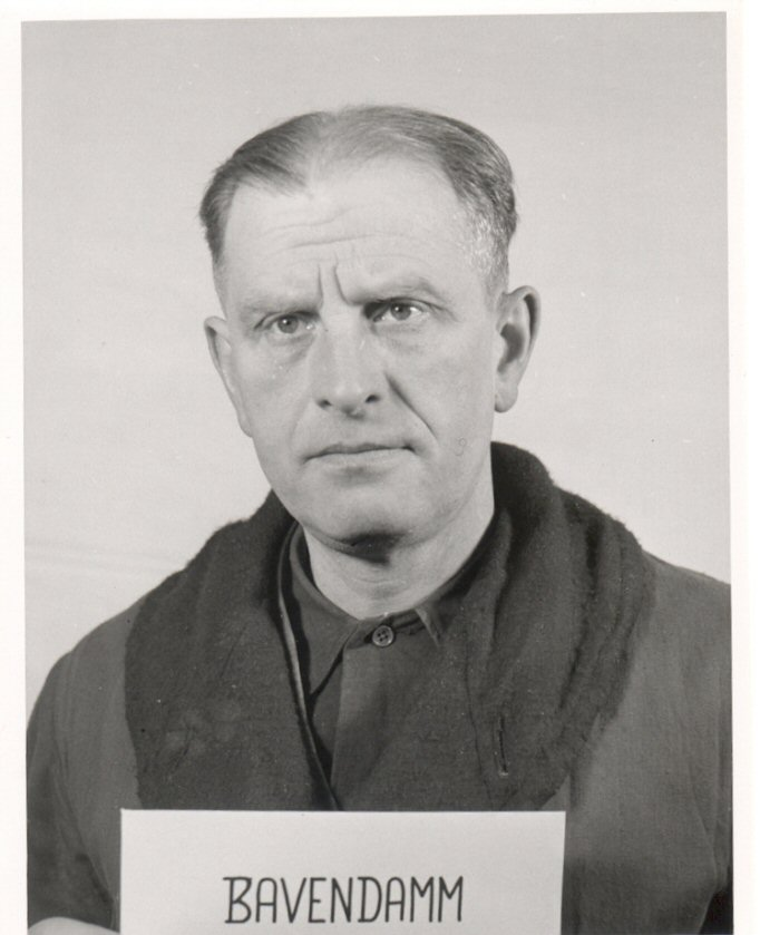 Hans Bavendamm as a witness during the Nuremberg Trials.